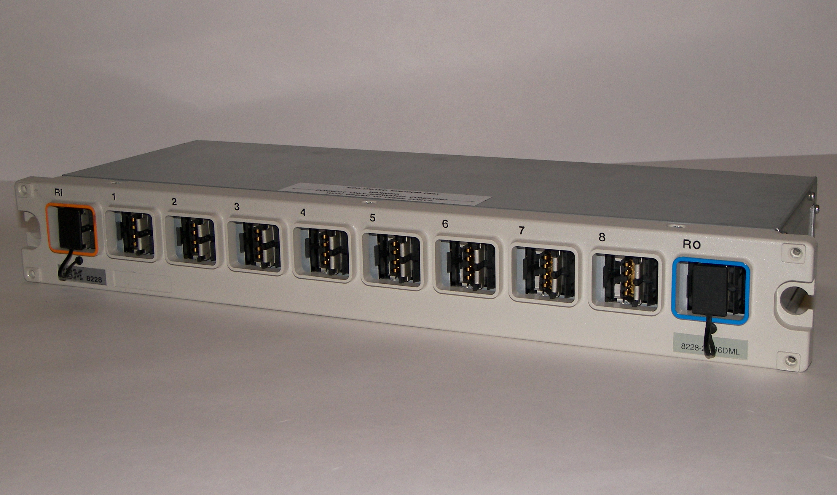 An IBM 8228 Multistation Access Unit.